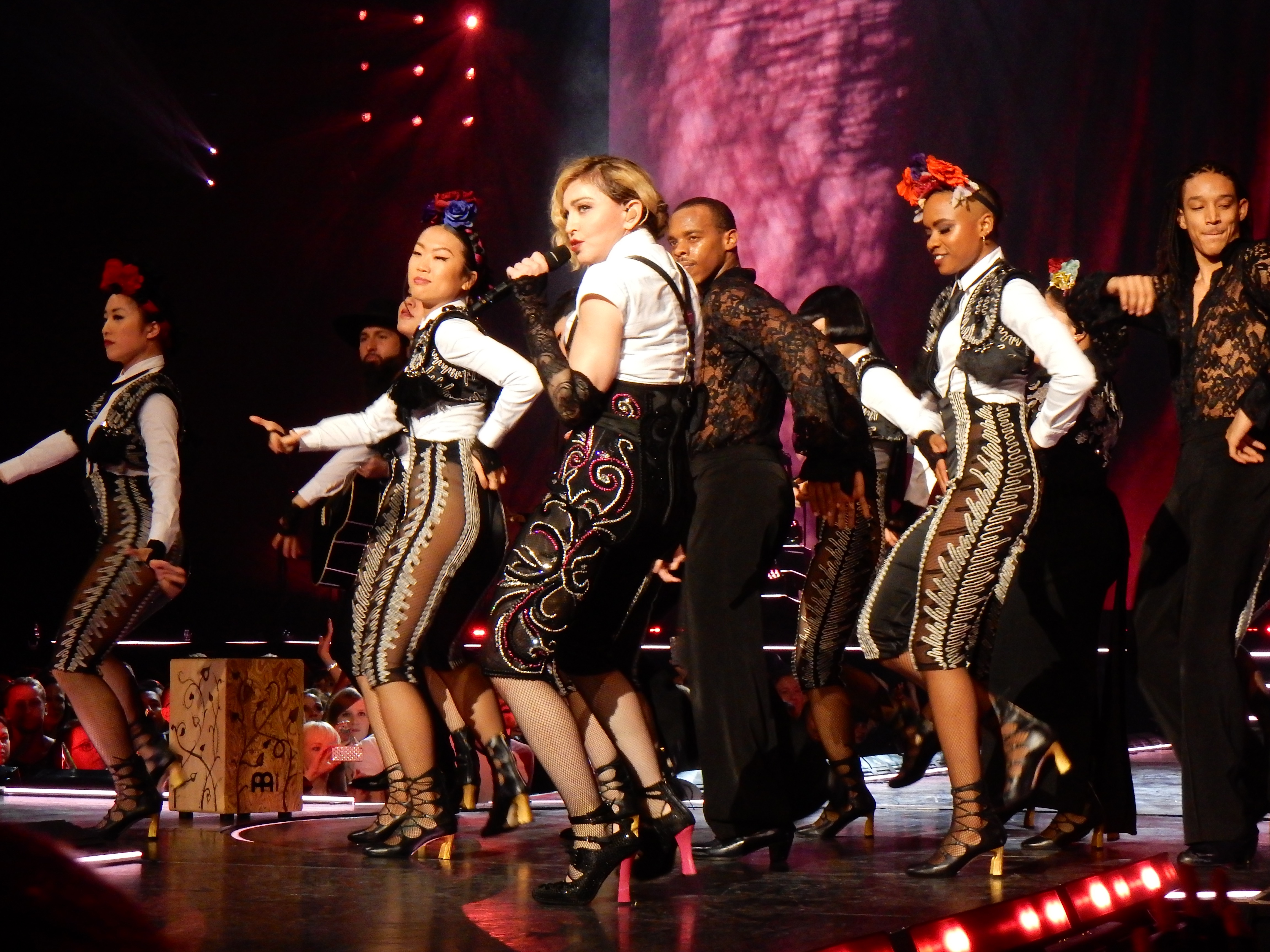 Madonna - Rebel Heart tour 2015 - Berlin 2